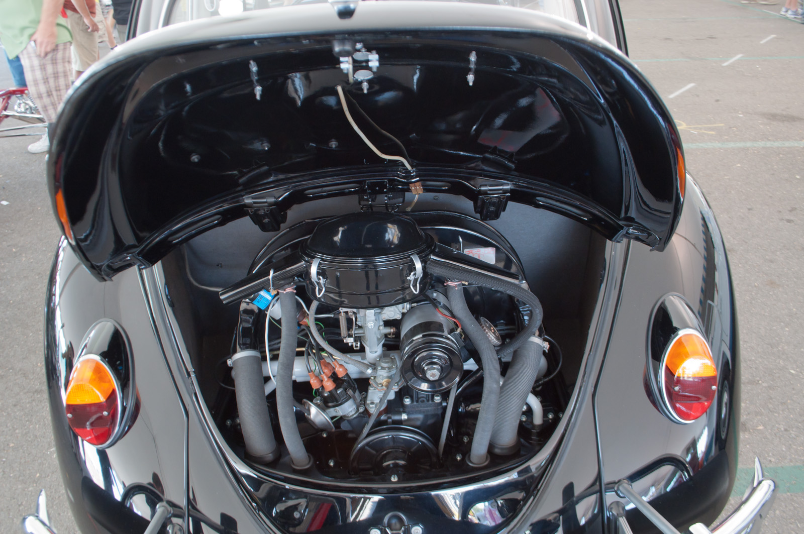 Offered for sale at Barrett-Jackson Auto Auction, Costa Mesa, California. A very mint Beetle that had had a full restoration with authentic parts.